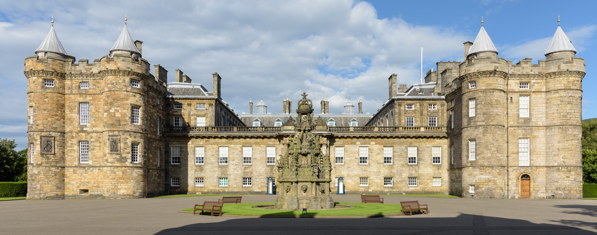 Front view of Holyroodhouse.